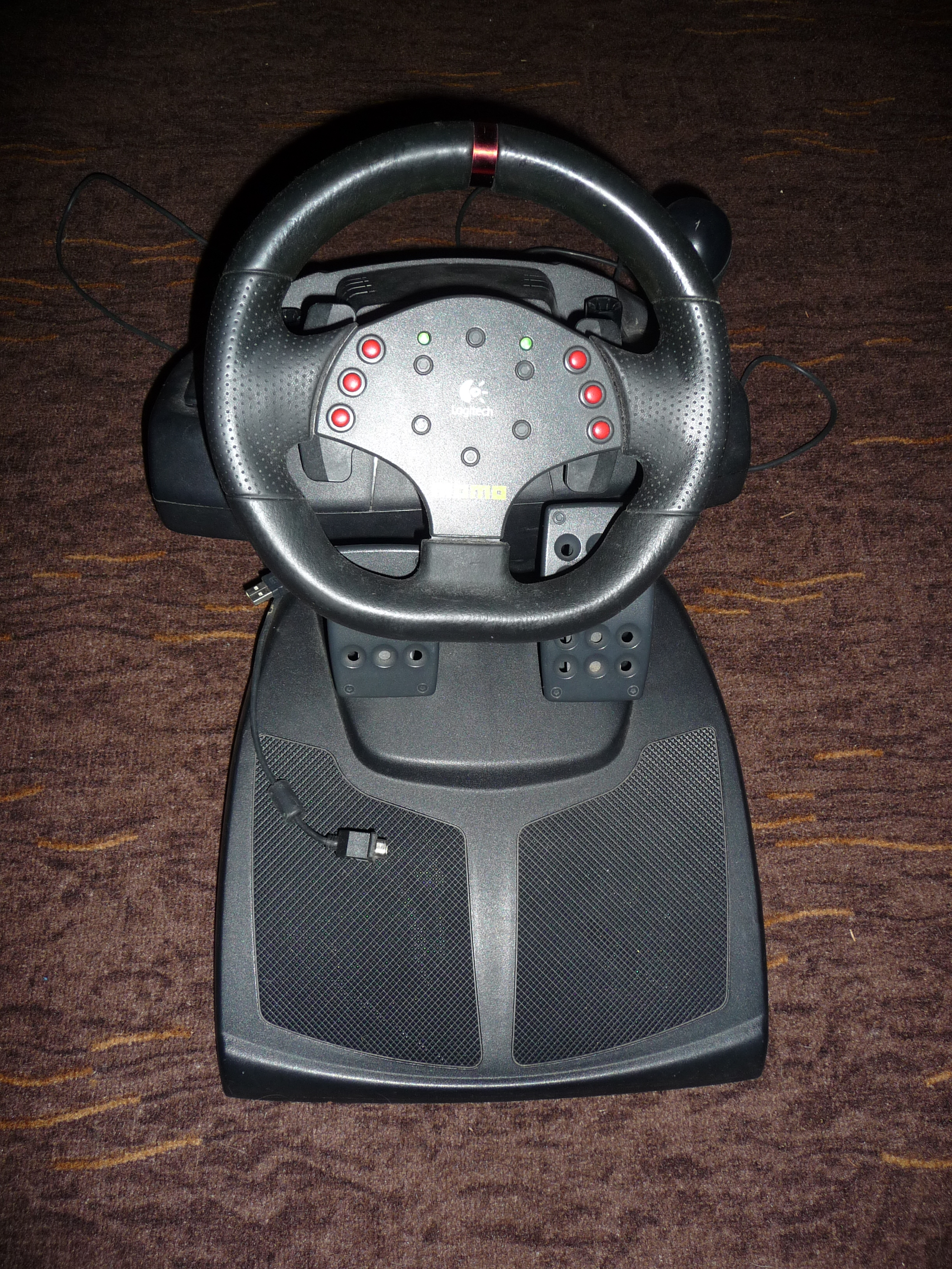 Logitech MOMO Racing Force Feedback